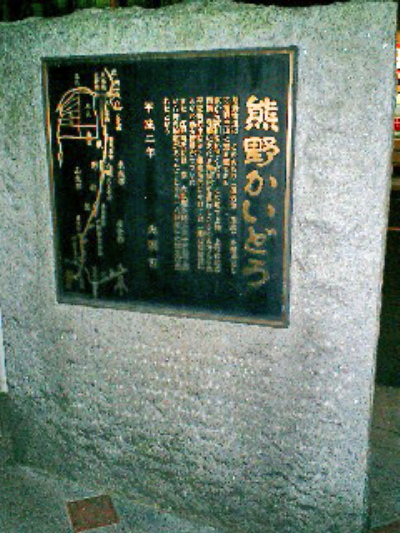 The copperplate which introduces Kumano-Kaido Kitahama Osaka City